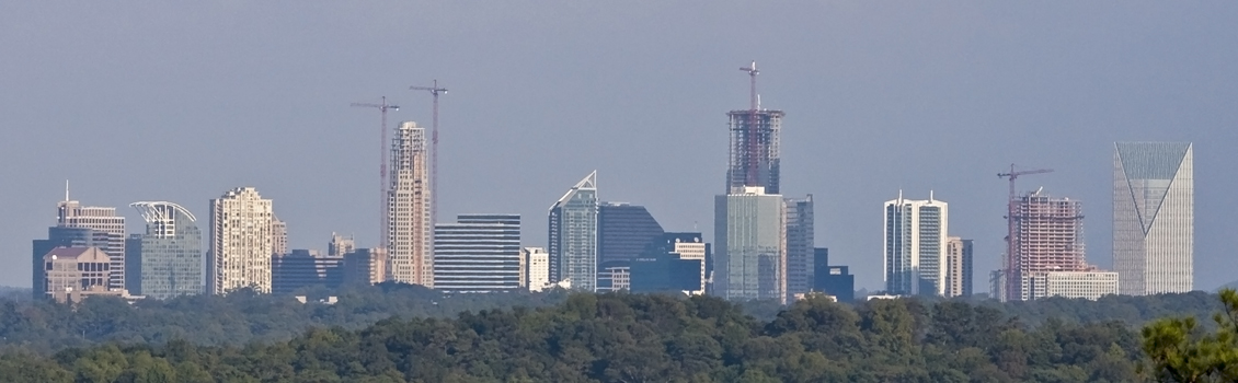 Shot from a hill in Vinings, about 6 miles from Buckhead.